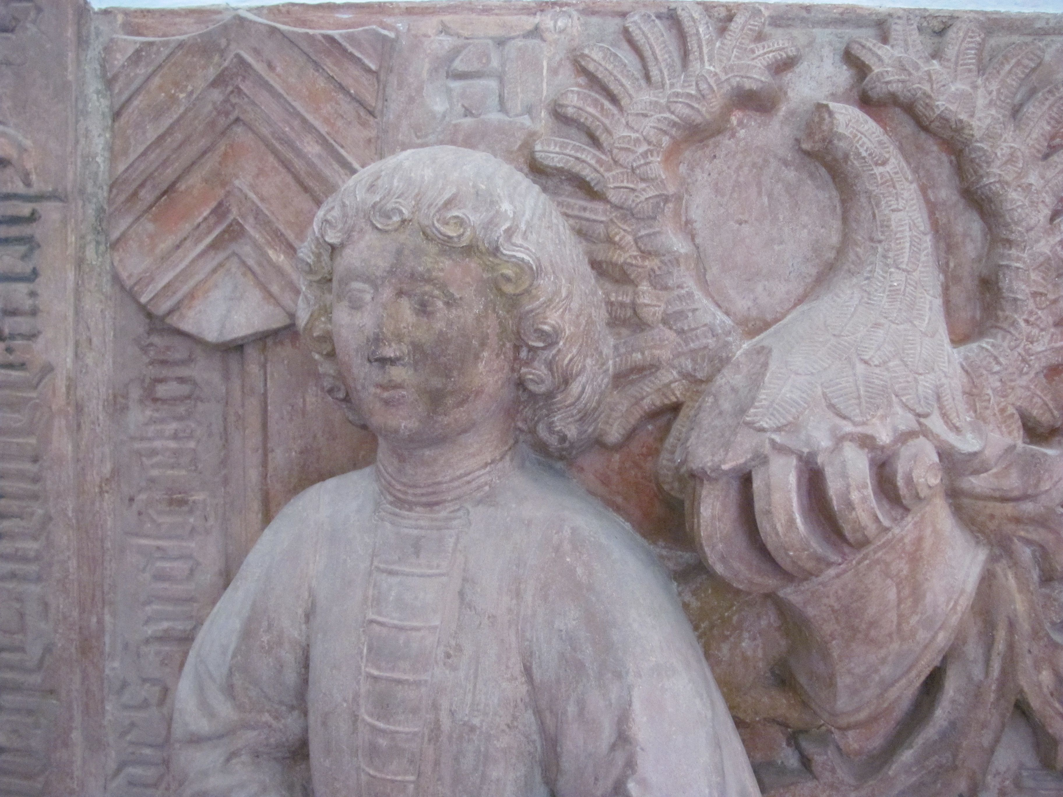 Count Johann of Hanau-Lichtenberg (1460-1473)